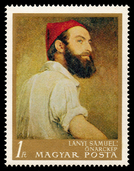 Paintings - Samuel Lanyi, self-portrait, 1840 Denomination: 1 Forint